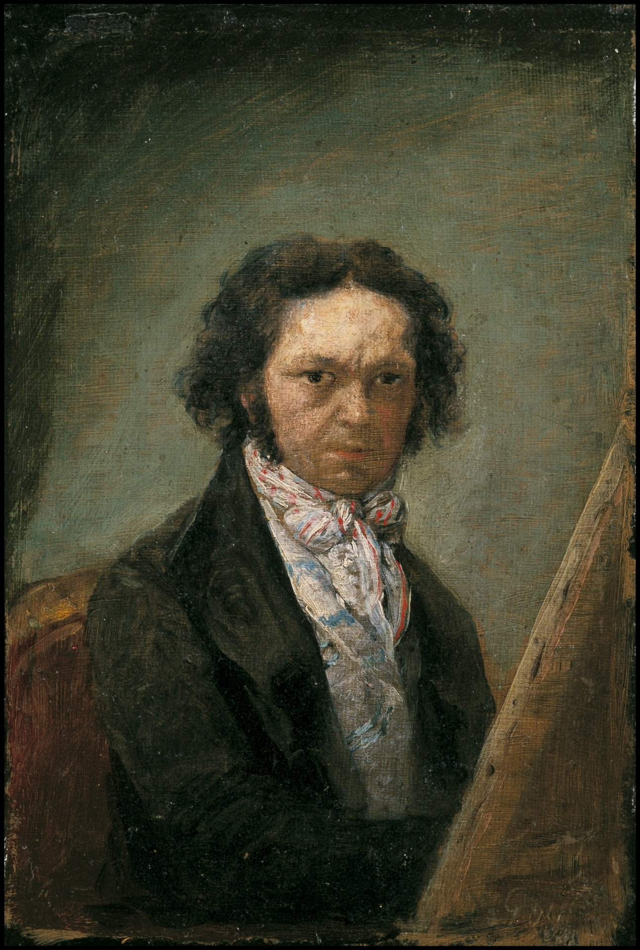 Self-portrait